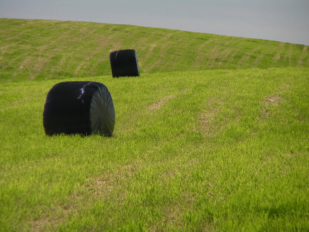 Pasture, Hokkaido-牧草北海道